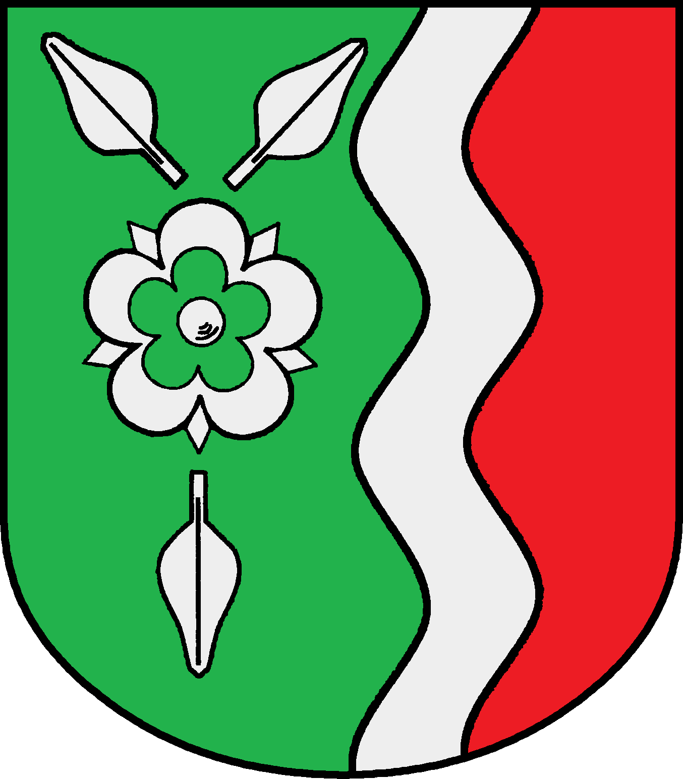 Coat of arms of the municipality Kittlitz in Schleswig-Holstein, Germany.